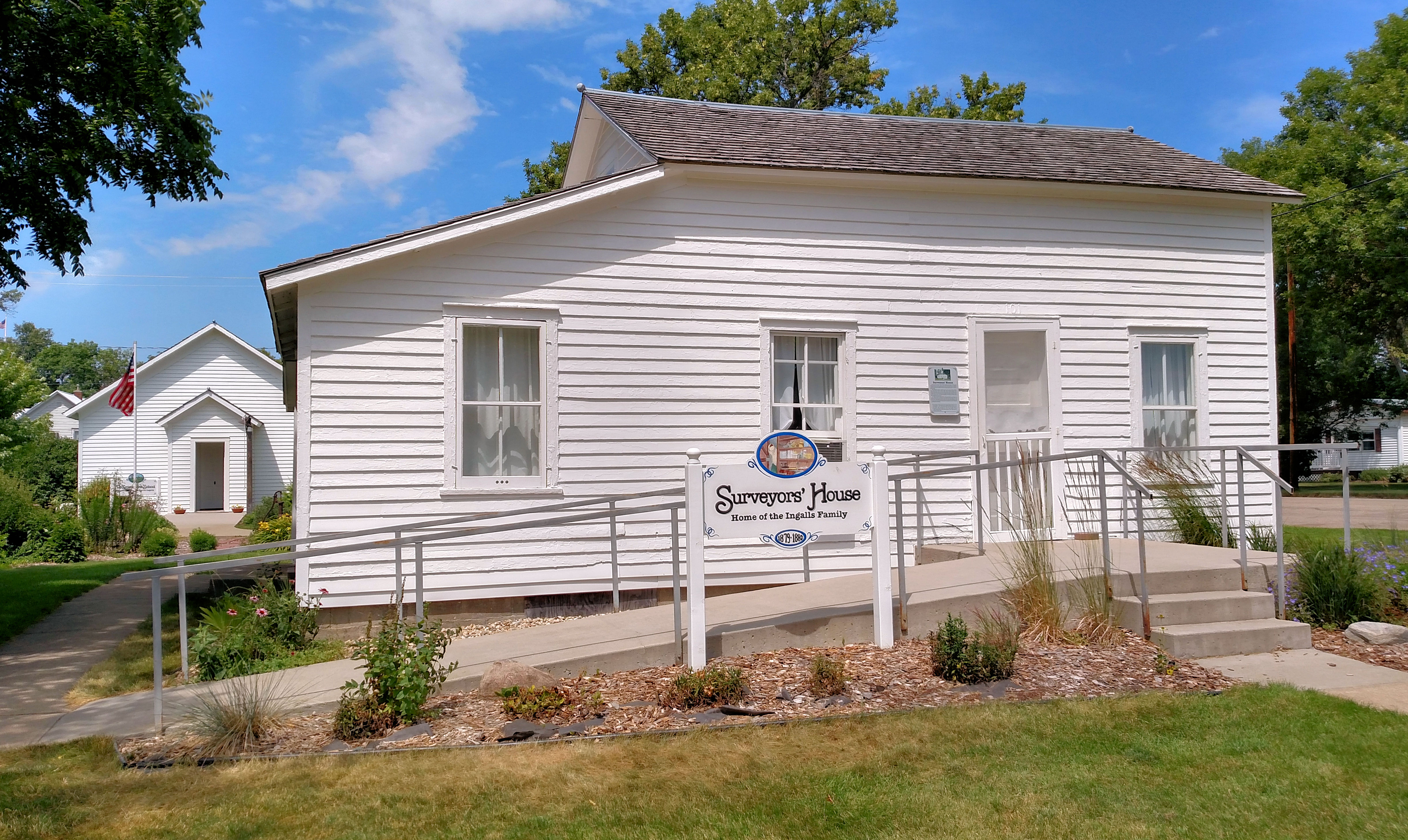 Surveyor's House, the first home of the Ingalls family in Dakota Territory, located at the Laura Ingalls Wilder Memorial Society historic homes site, De Smet, SD.